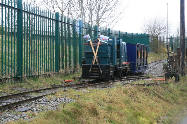 Chasewater Light Railway - narrow gauge railway. It was wet and gloomy with consequent motion artefact on the locomotive. This is a recreation of a National Coal Board underground train with a Ruston diesel locomotive with a flame trapped exhaust towing a man-riding car.